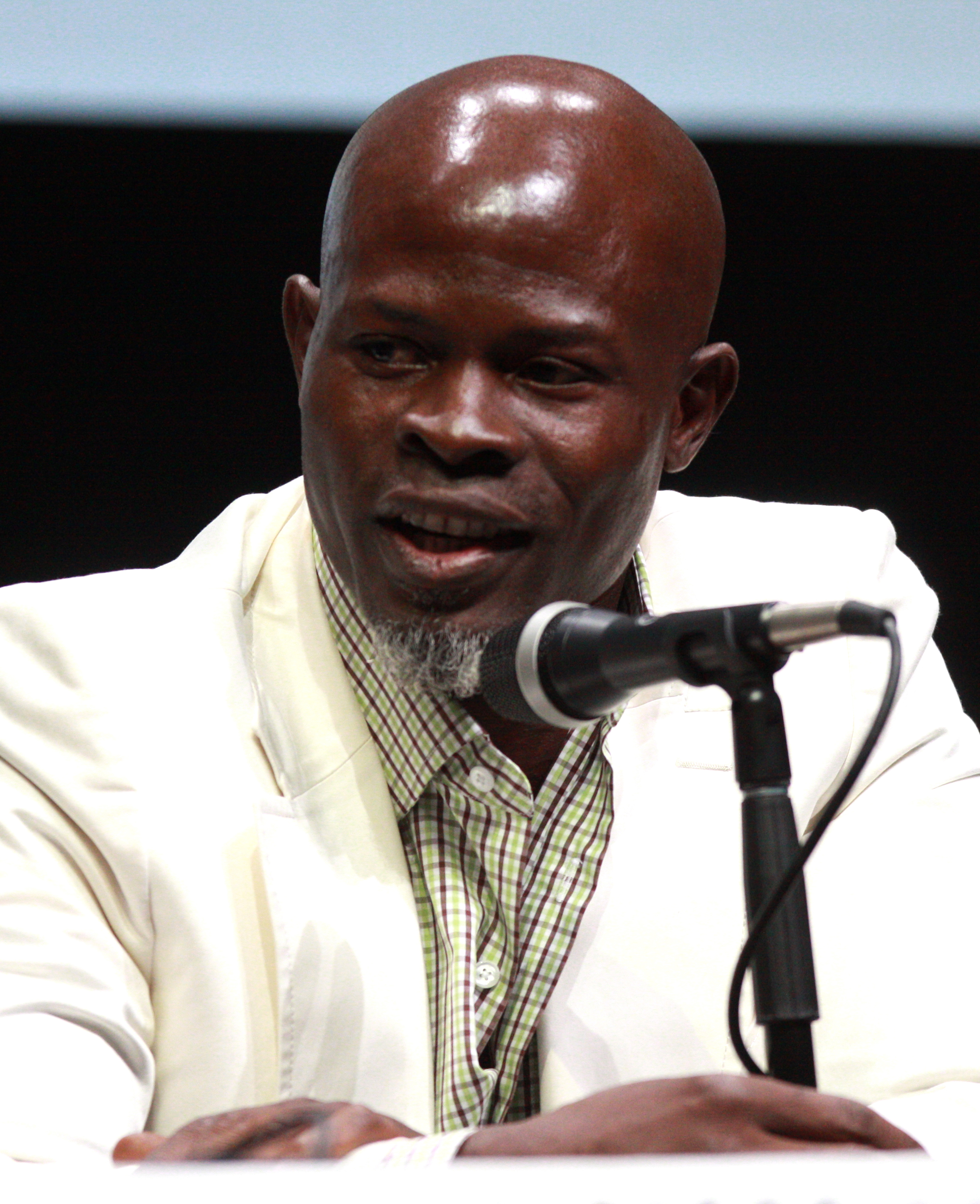 Djimon Hounsou at the 2013 San Diego Comic Con International in San Diego, California.